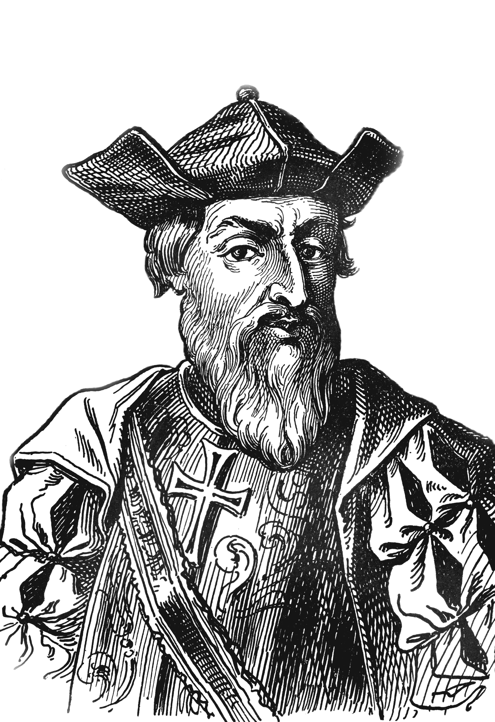 Vasco da Gama, Portuguese navigator.